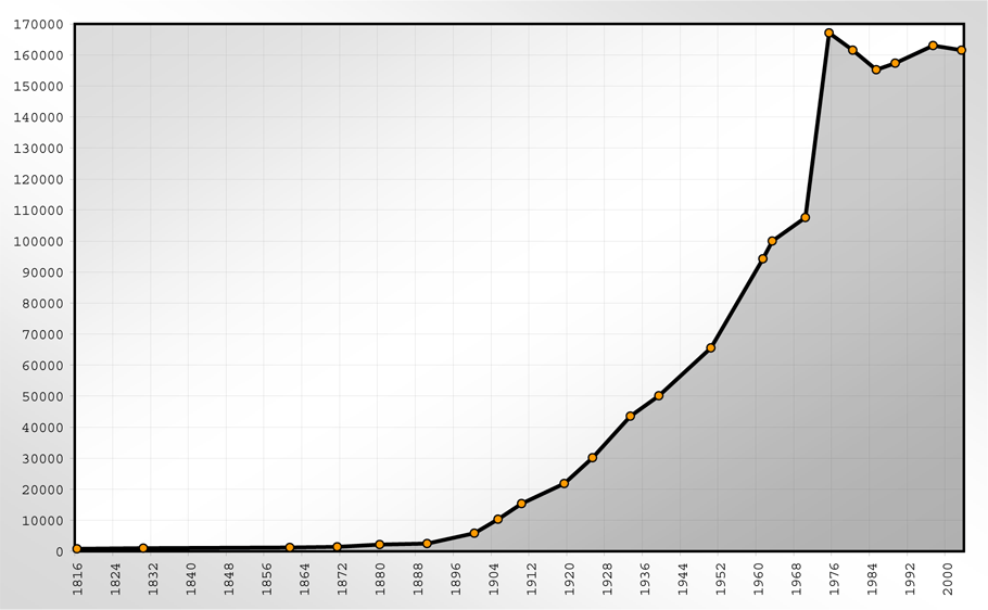 This image shows the population statistics of Leverkusen (Germany).